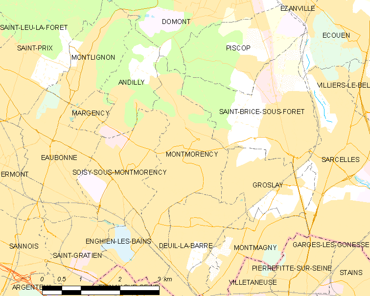 Map of French municipality Montmorency